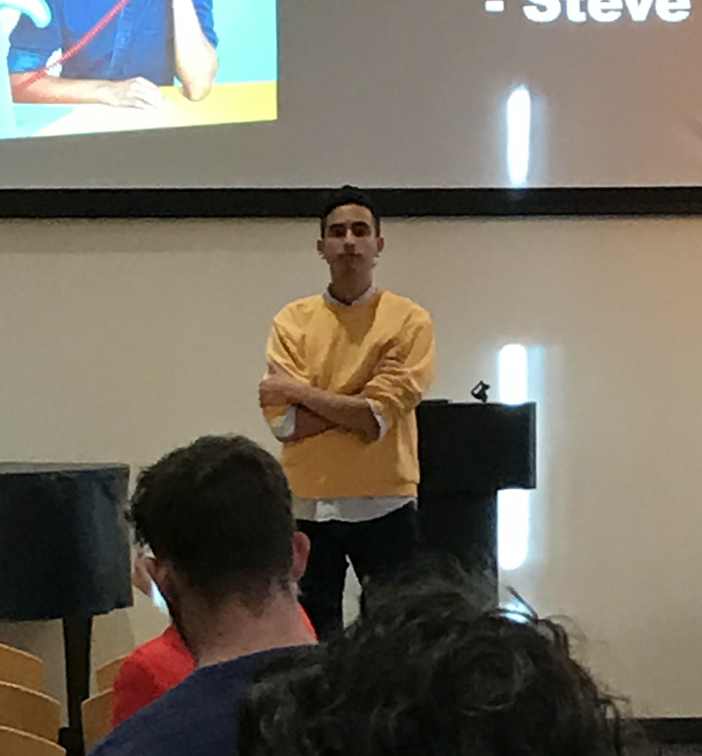 Dylan Marron delivering a presentation on his podcast, Conversations with People who Hate Me